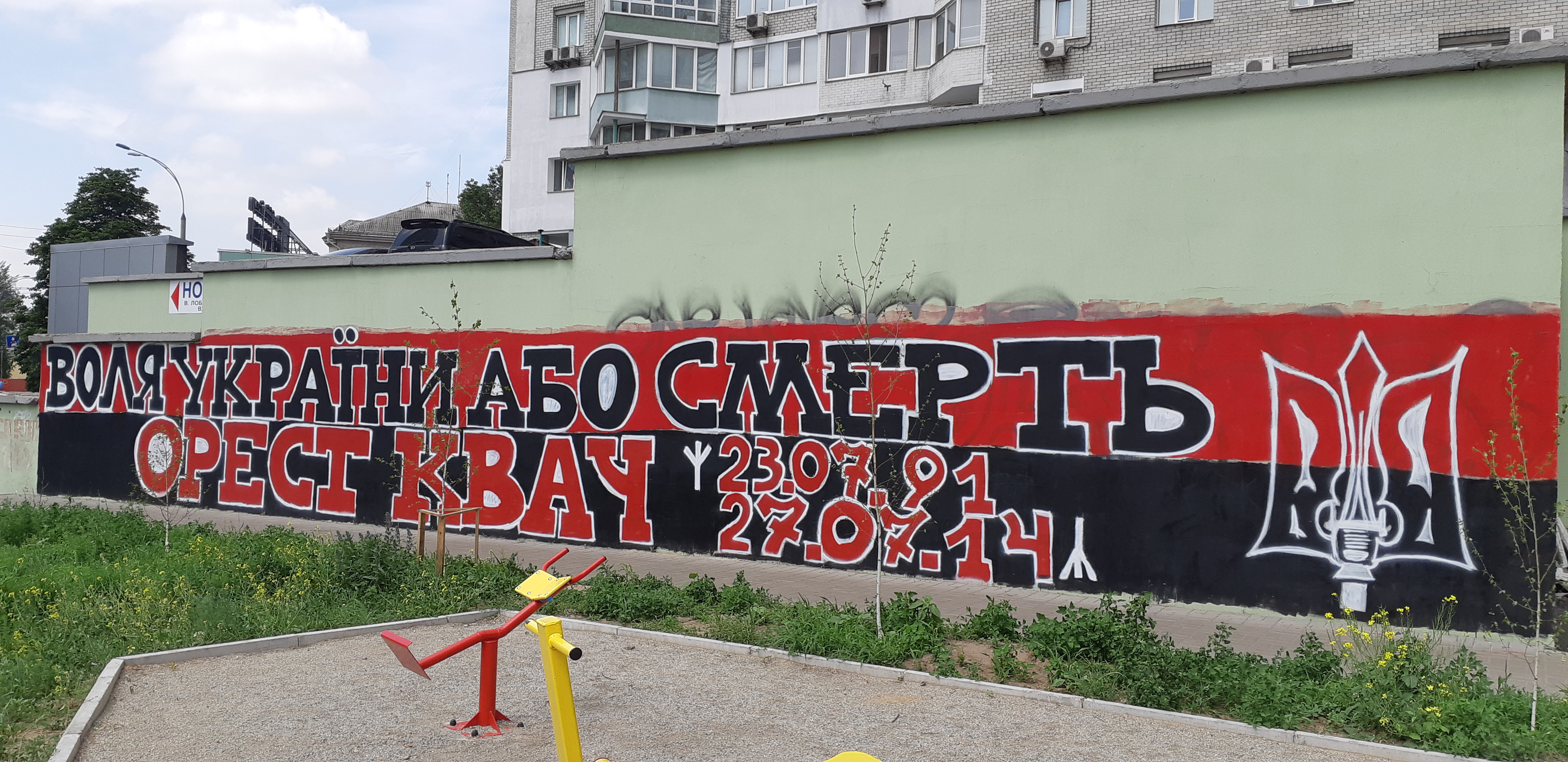 Orest Kwach memory wall in Kyiv, 2019.